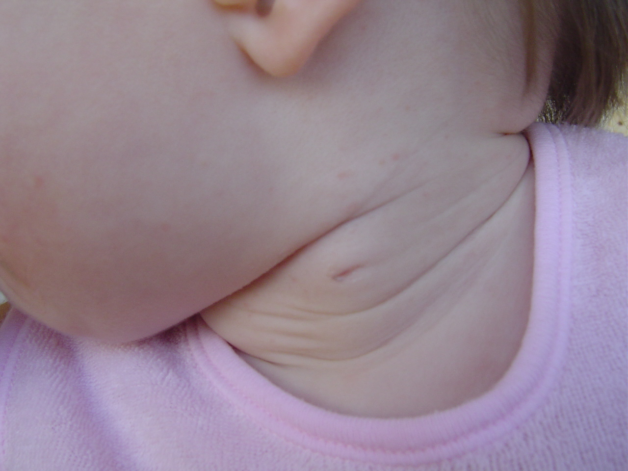 BOR Syndrome, neck fistula